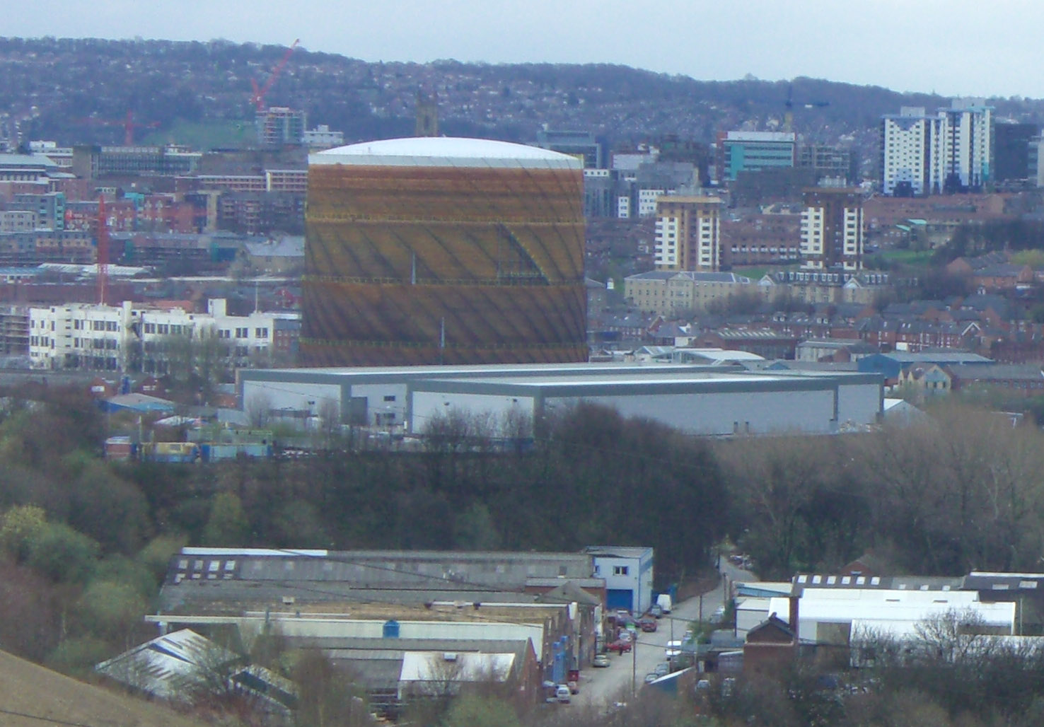 View of Neepsend, Sheffield